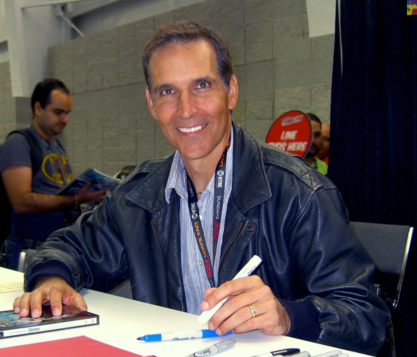 Comics creator Todd McFarlane at the New York Comic Con, October 15, 2011. This photo was created by Luigi Novi. It is not in the public domain, and use of this file outside of the licensing terms is a copyright violation.